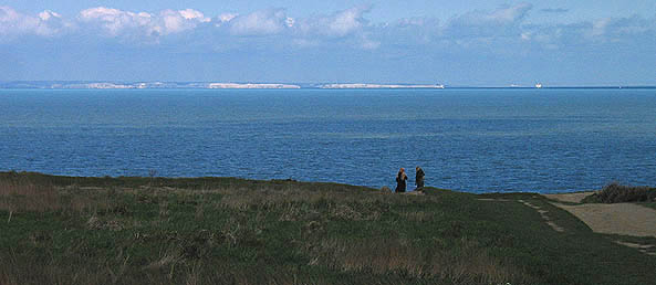 View of the White Cliffs of Dover from Cap Gris-Nez (France) across the English Channel, Strait of Dover. (Focal length equivalent for 35mm Camera: 105mm). Dover is at the 11 o'clock direction from the people, app. 34 km distant. New Version: File:FranceGrisNez2Dover.jpg and image:DoverWhiteCliffs3sm_Sb.jpg